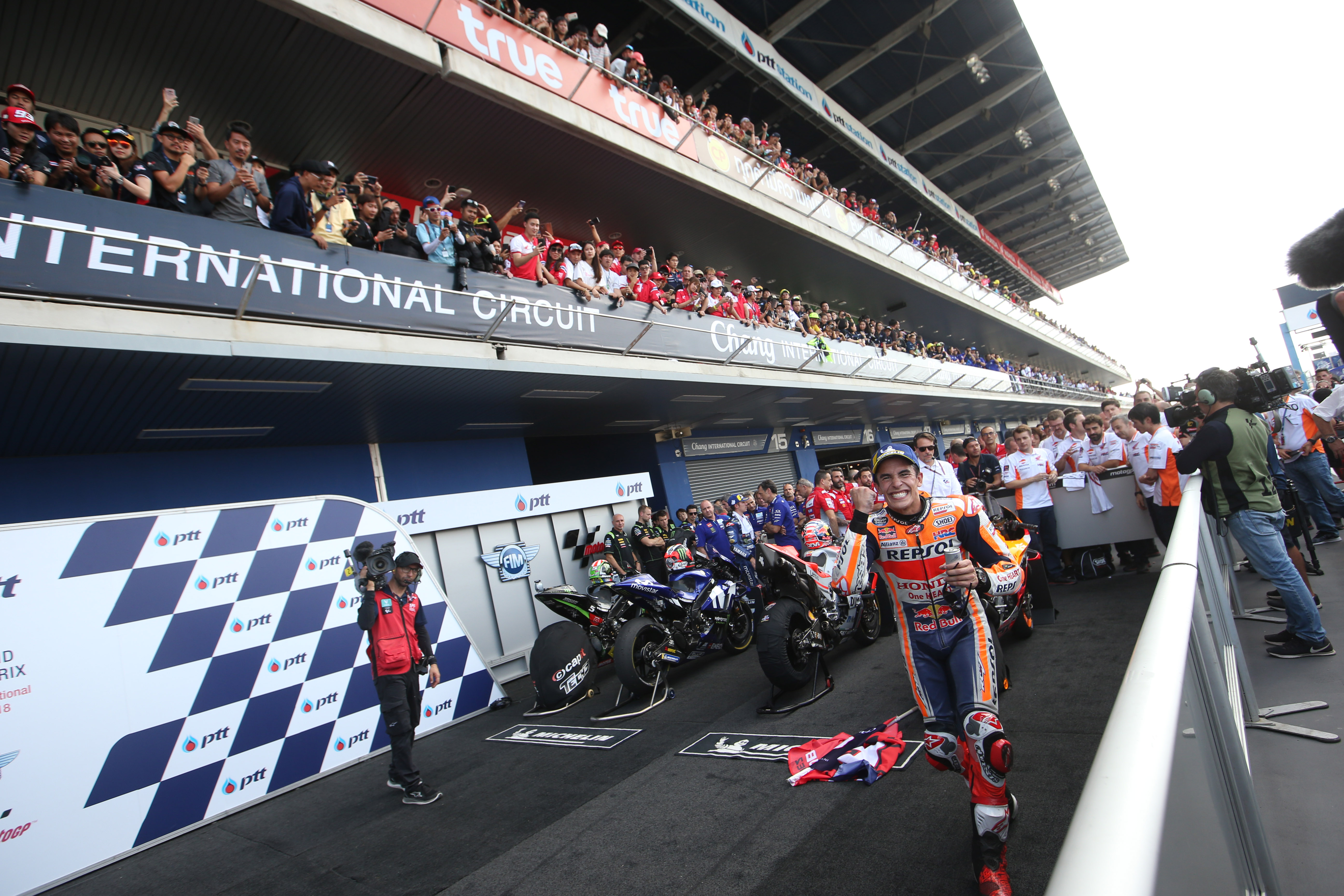 Marc Márquez, running to the camera whilst celebrating at parc fermé after winning the 2018 Thai Grand Prix.